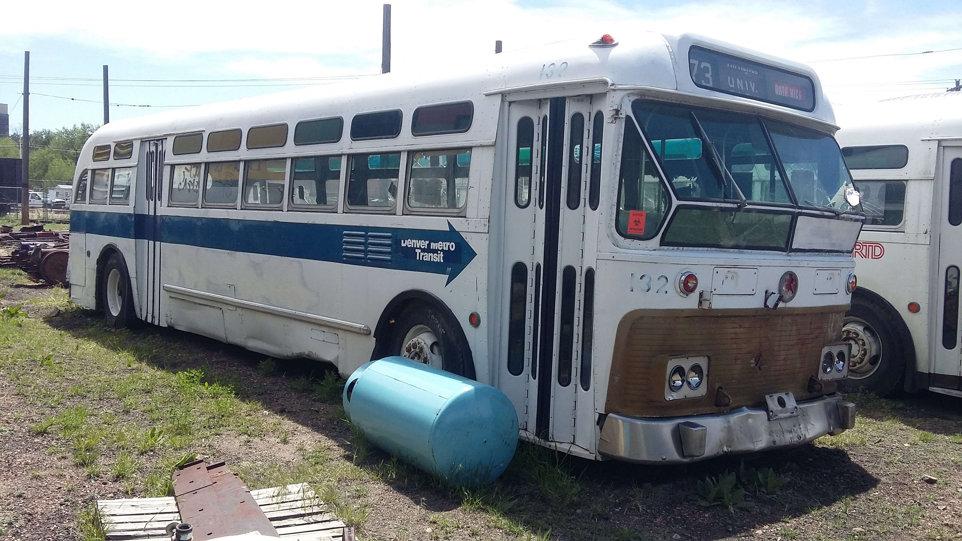 Denver Metro Transit No. 132 at the Colorado Springs & Interurban Railway museum. It is a 1959 Mack C47-DT, with a rebuilt front end.